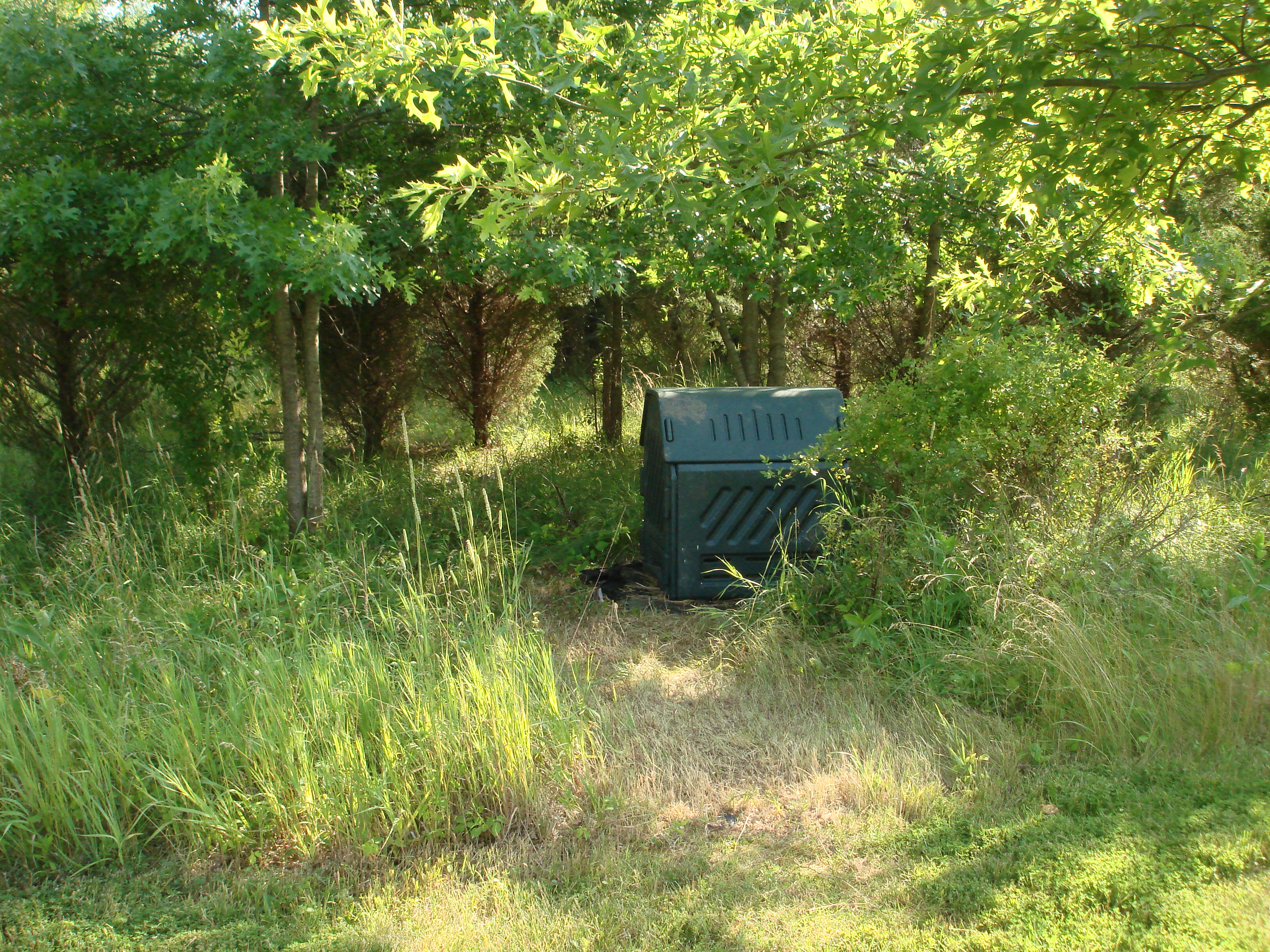 A green compost bin.